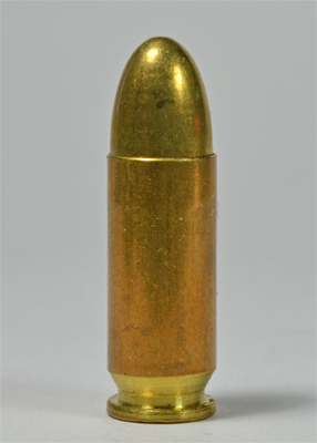 9mm Largo cartridge. Also known as the 9x23mm Largo.